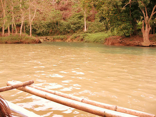 Loboc River in Bohol, Philippines.